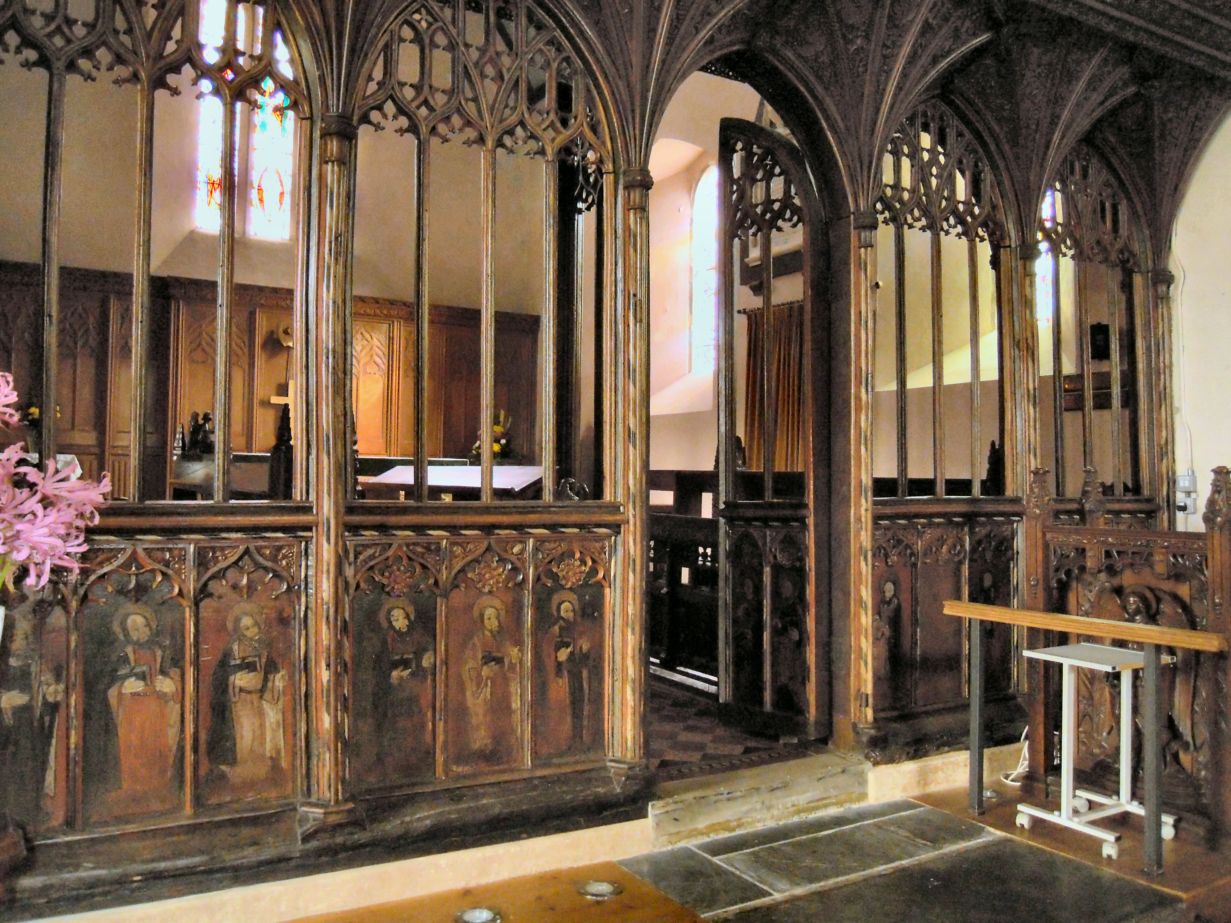 The 15th-century painted Rood Screen in Church of St Peter ad Vincula in Combe Martin in North Devon